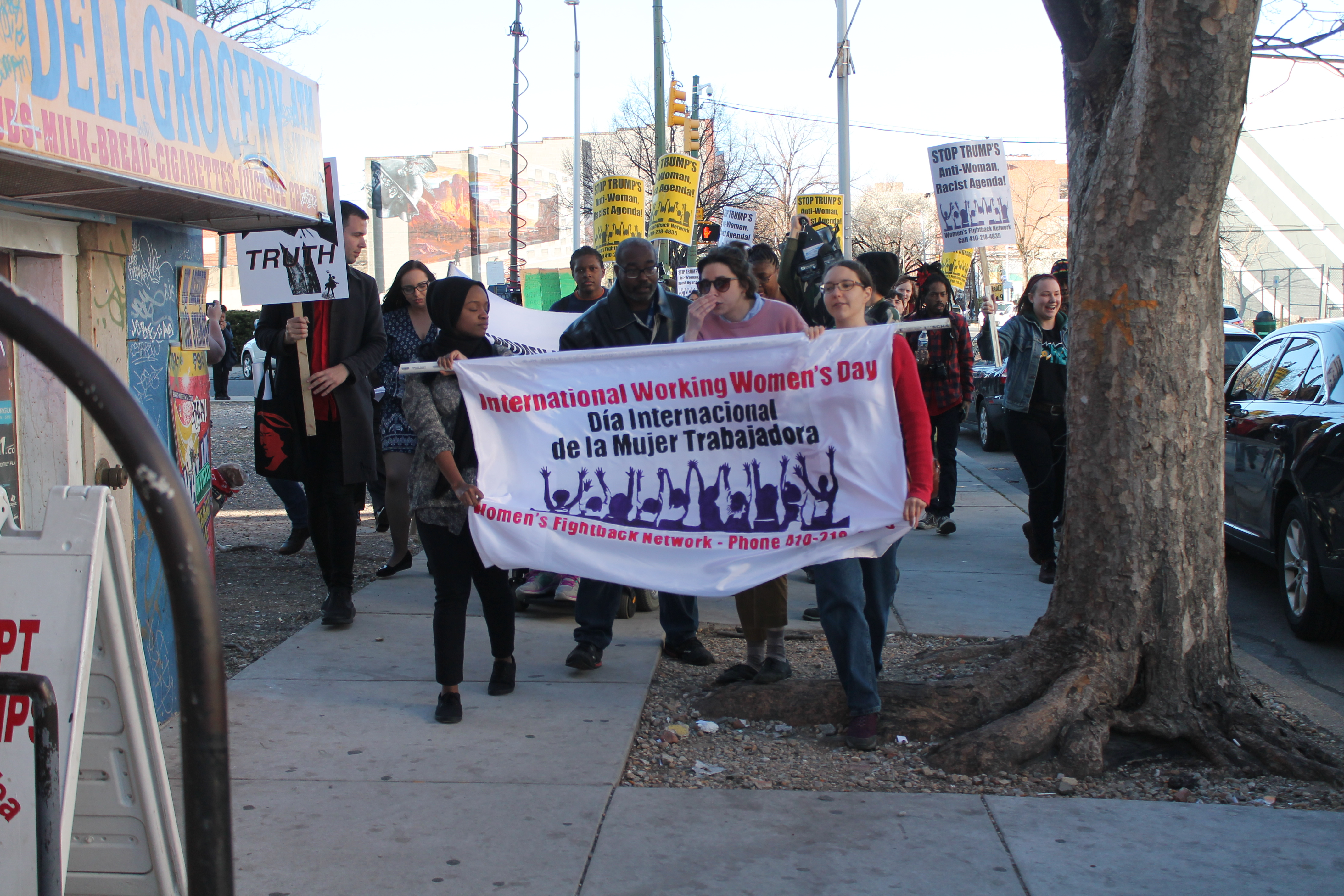 WOMEN UNITE TO FIGHT BACK International Women's Day March Step-off en route to Women's Jail from People's Park in 1900 block of North Charles Street in Baltimore MD on Wednesday afternoon, 8 March 2017 by Elvert Barnes Photography Follow Baltimore International Women's Day Strike & March at Elvert Barnes 8 March 2017 BALTIMORE WOMEN'S DAY STRIKE & MARCH docu-project at